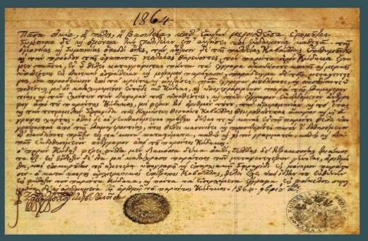 Kavala Greek Municipality Kodex from 1-11-1864 to 30-3-1889